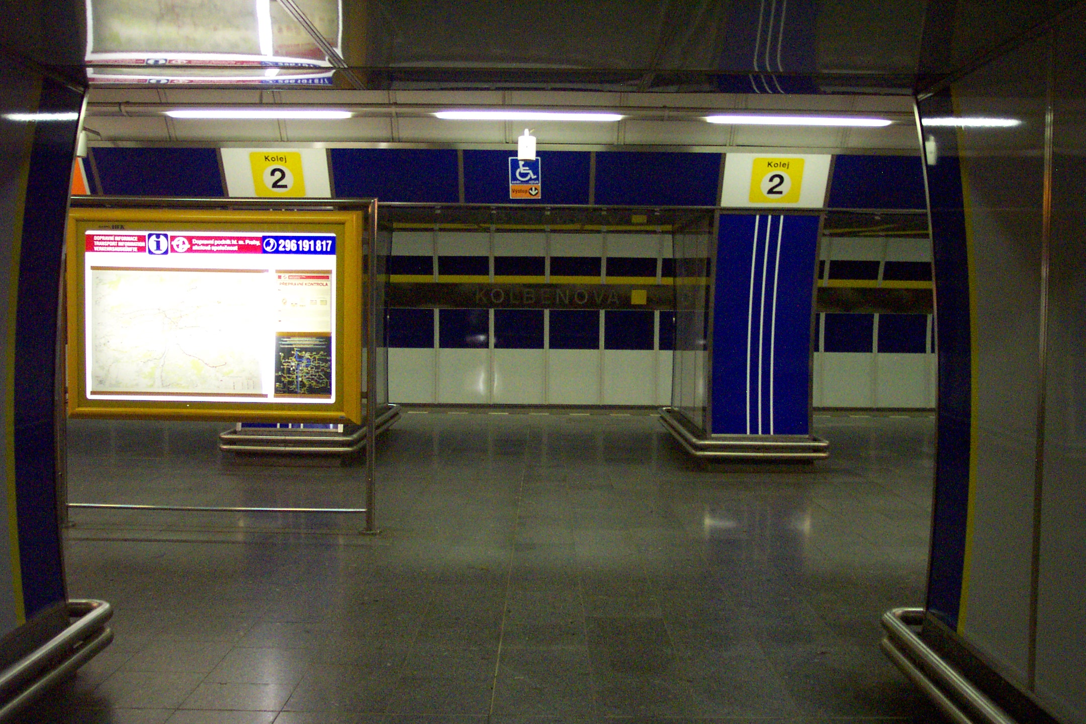 Metro station Kolbenova, Prague